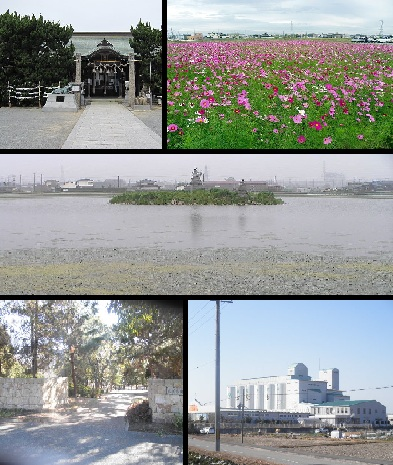 Inami montage